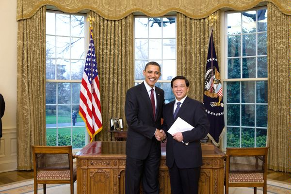 President Barack Obama welcomes Ambassador Zhang Yesui of the People’s Republic of China to the White House on March 29, 2010, during the credentials ceremony for newly appointed ambassadors to Washington, D.C.